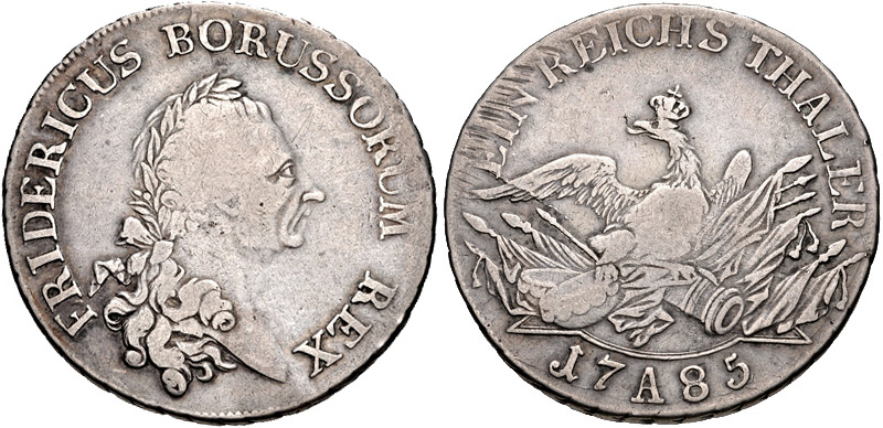 GERMANY, Preußen (Königreich). Friedrich II. King, 1740-1786. AR Taler (38mm, 21.67 g, 12h). Berlin mint. Dated 1785. Laureate head right / Crowned eagle perched right atop cannon and flags, had left, with wings spread. Davenport 2590; KM 332.1. Good Fine, toned, adjustment marks on reverse.